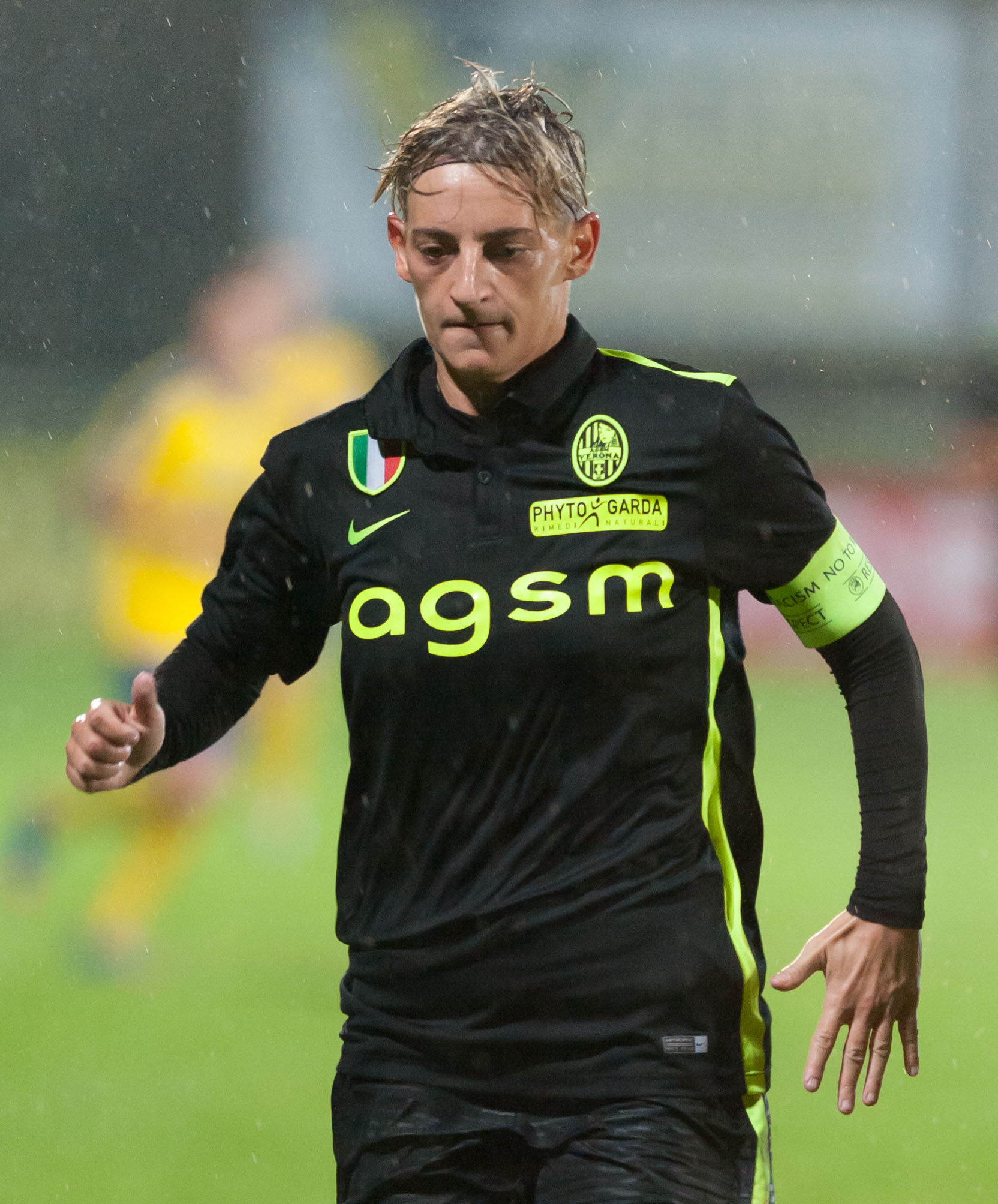 UEFA Women's Champions League, FSK St. Pölten-Spratzern vs ASF CF Verona, St. Pölten, 2015-10-07: Melania Gabbiadini.